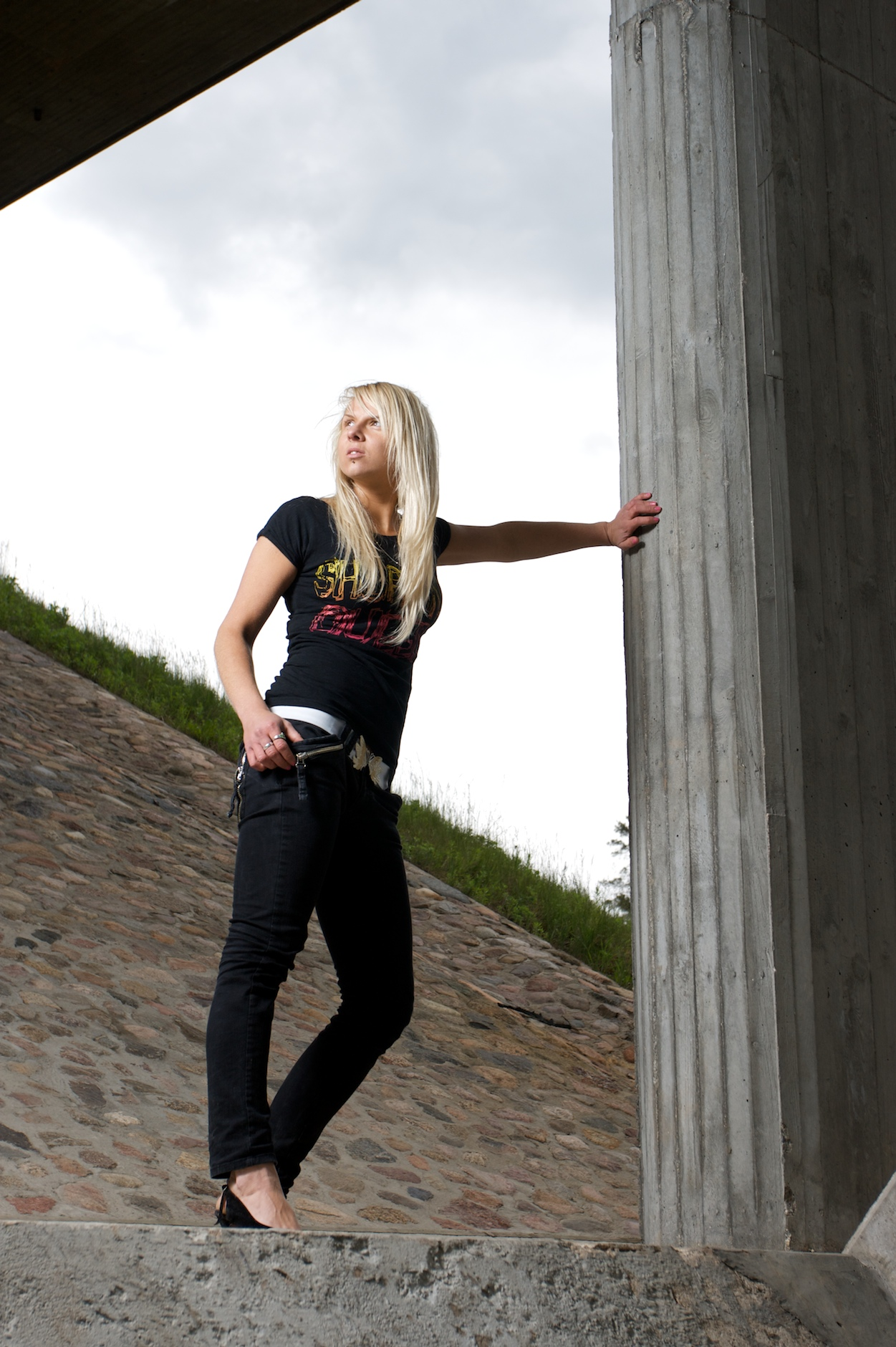 Blond woman in black clothing under cement pilars.